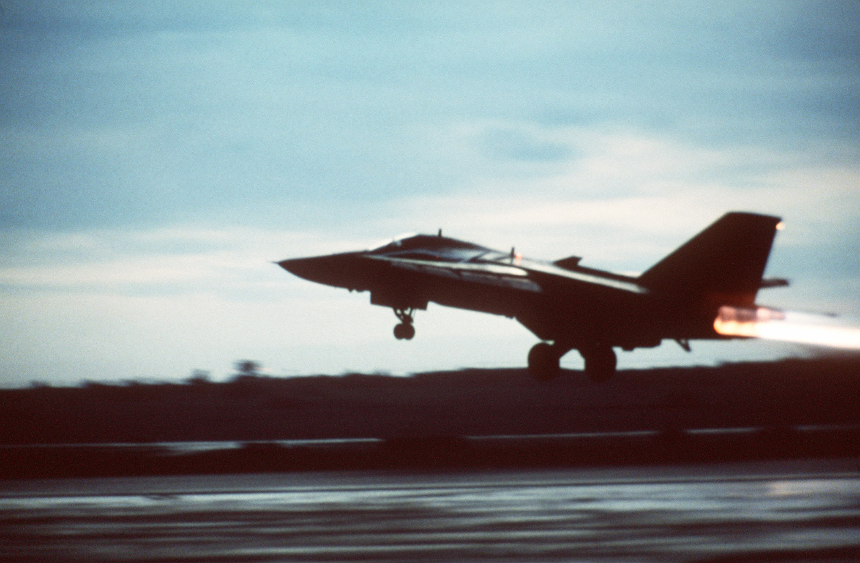 A 48th Tactical Fighter Wing F-111F aircraft retracts its landing gear as it takes off from RAF Lakenheath, East Anglia England, to participate in a retaliatory air strike on Libya.